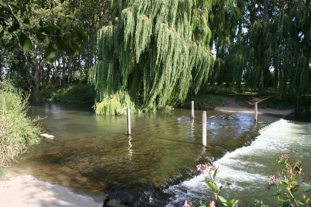 View across the ford View of the ford from down the bank a bit.